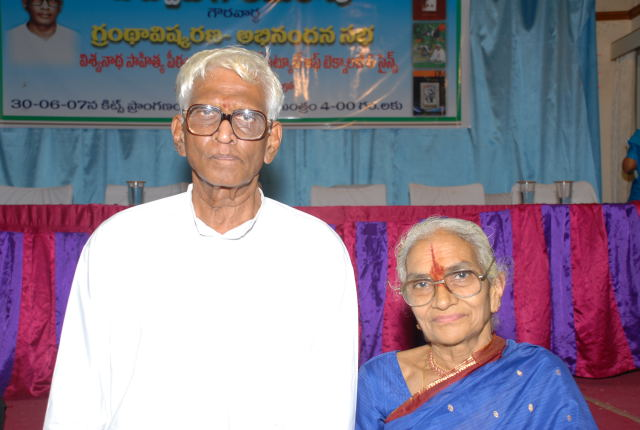 Juvvada Gautam Raju and his wife at a felicitation ceremony held on 30-06-2007 at KITS, Warangal